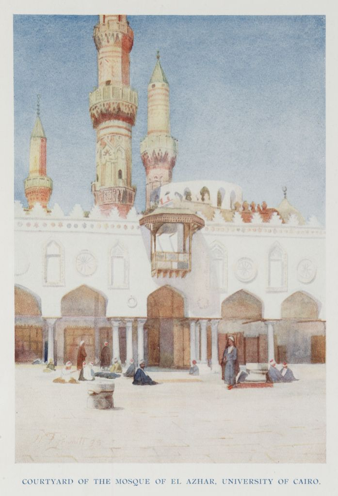 People in the courtyard of the mosque and minarets in the background. Painting.